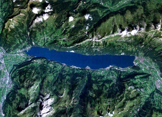 Lake Walen, made with NASA World Wind